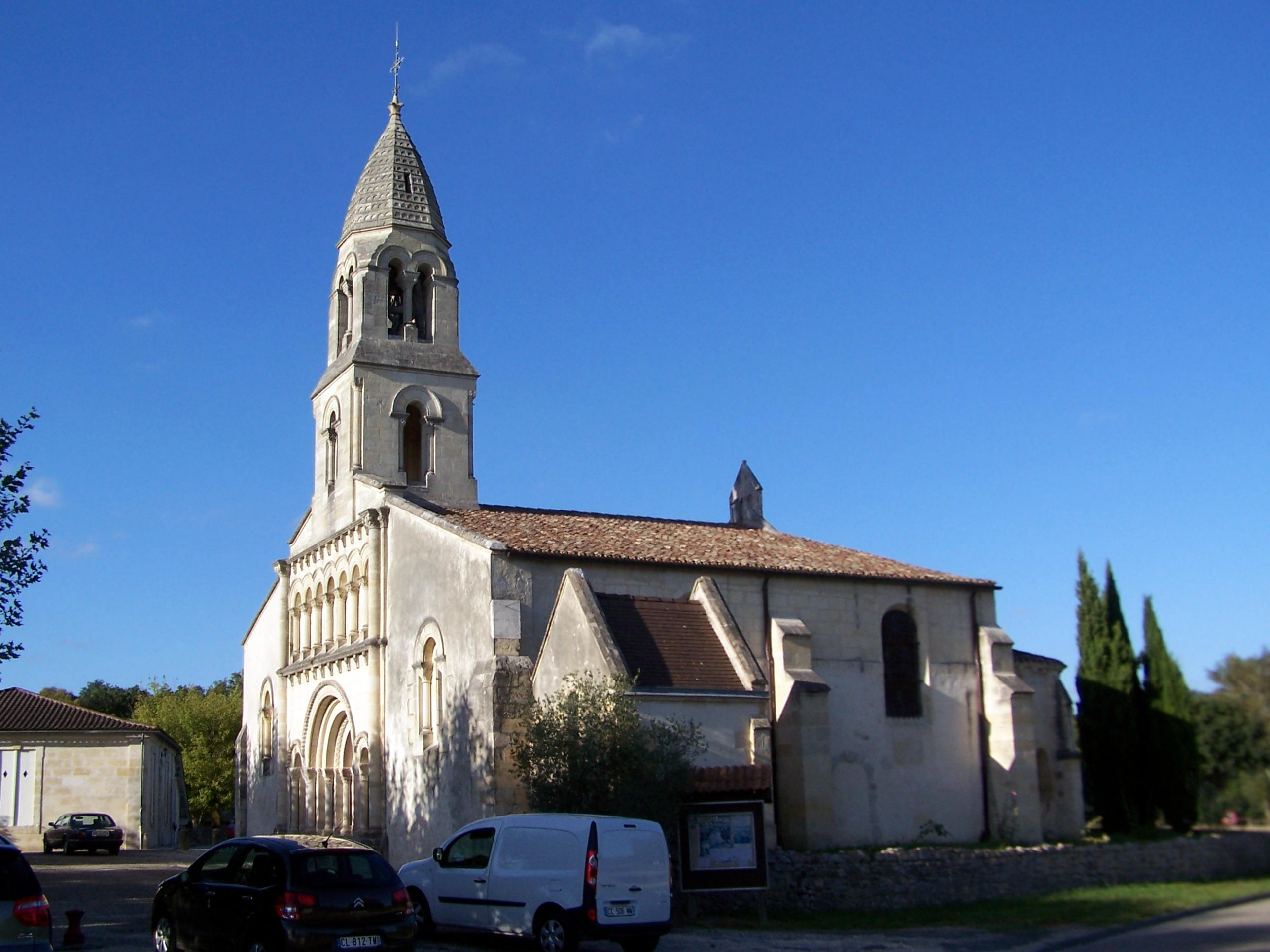 Saint-Michel church of Beautiran (Gironde, France)